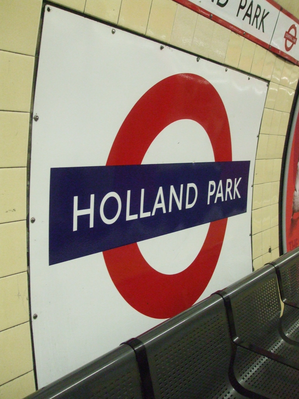 Platform roundel on Holland Park tube station